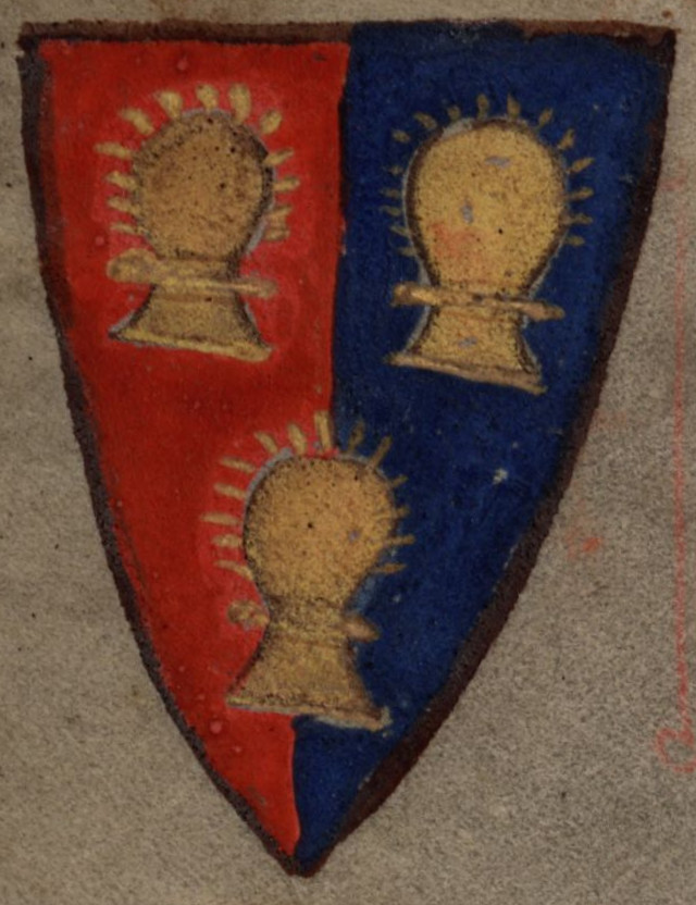 Coat of arms of Roger de Lacy as it appears on folio 33r of Cambridge Corpus Christi College 16 II. The upside down shield represents Roger's death.